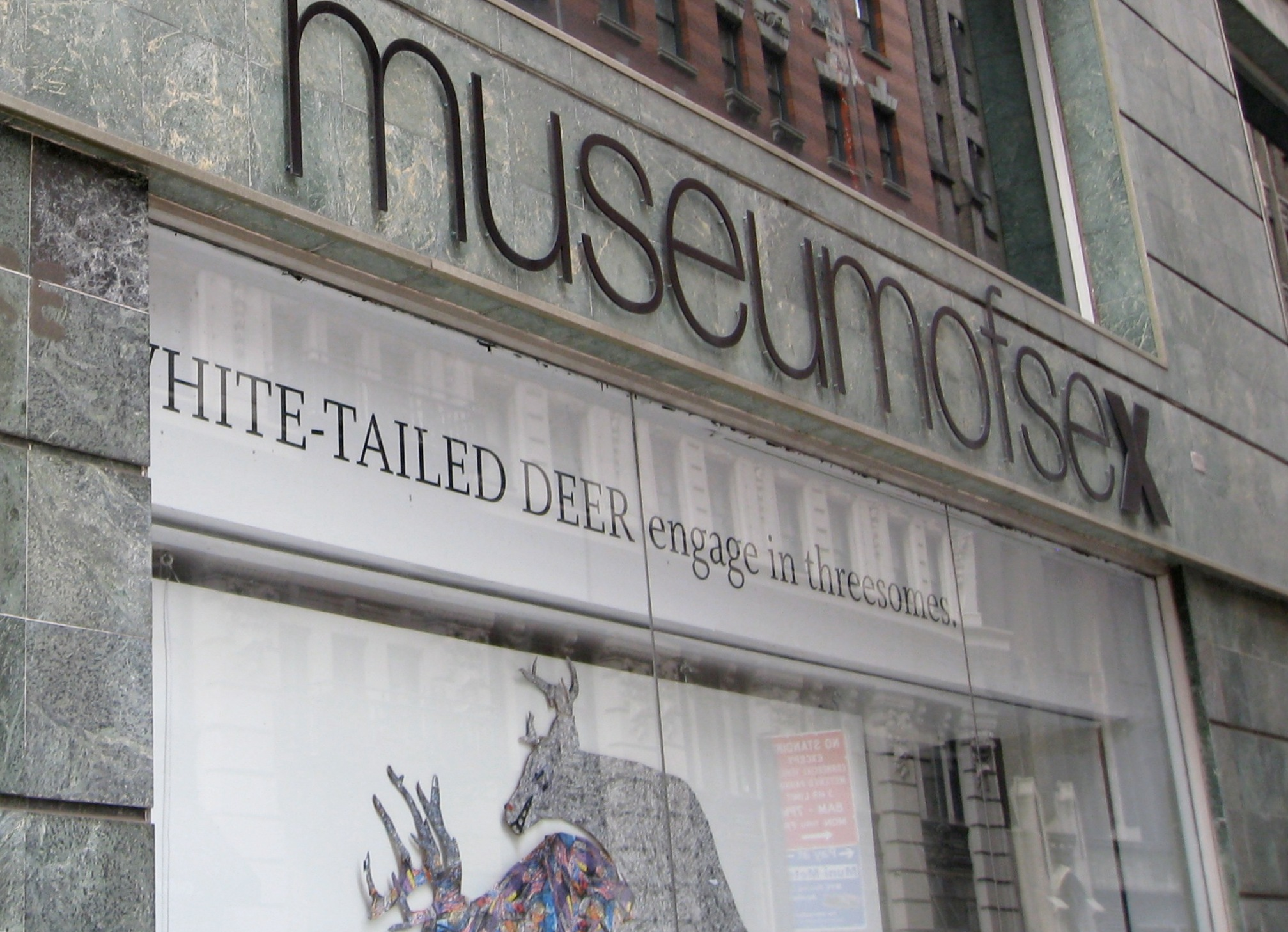 The Museum of Sex, at Fifth Avenue and 27th Street, first opened its doors to the public in 2002 and explores the many aspects of human sexuality.